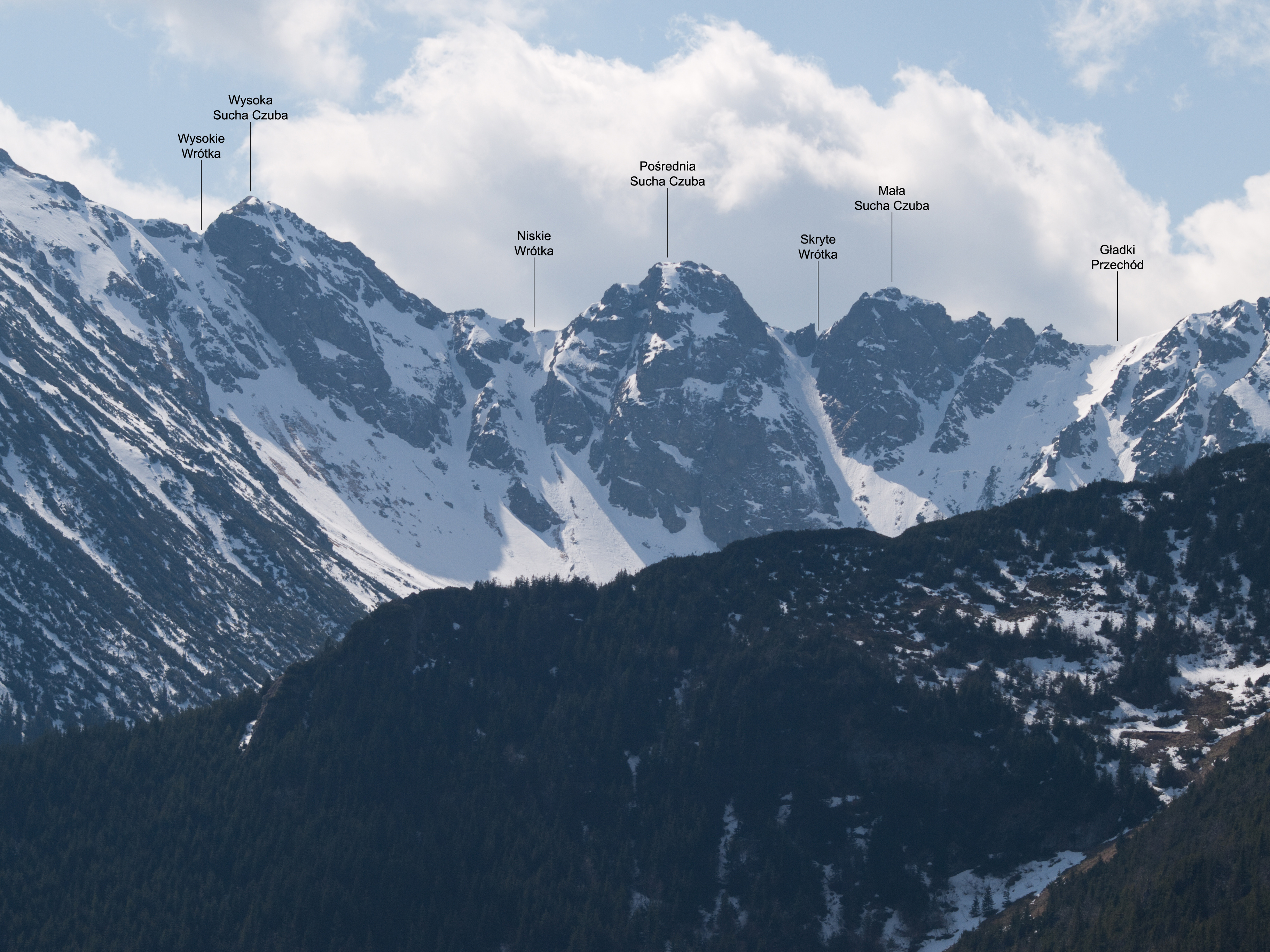 Suche Czuby Kondrackie – view from Krokiew (with captions).